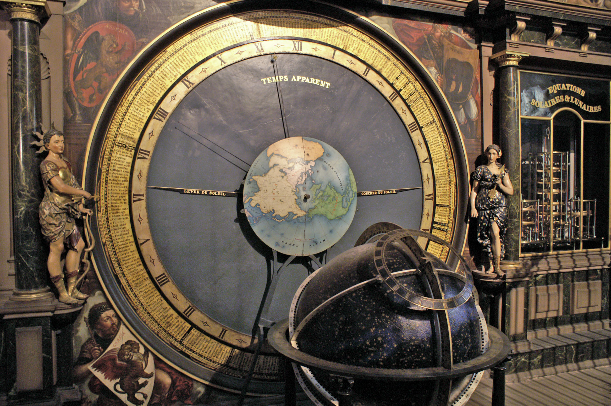 Astronomical Clock - Cathedral Notre-Dame de Strasbourg - Details - France